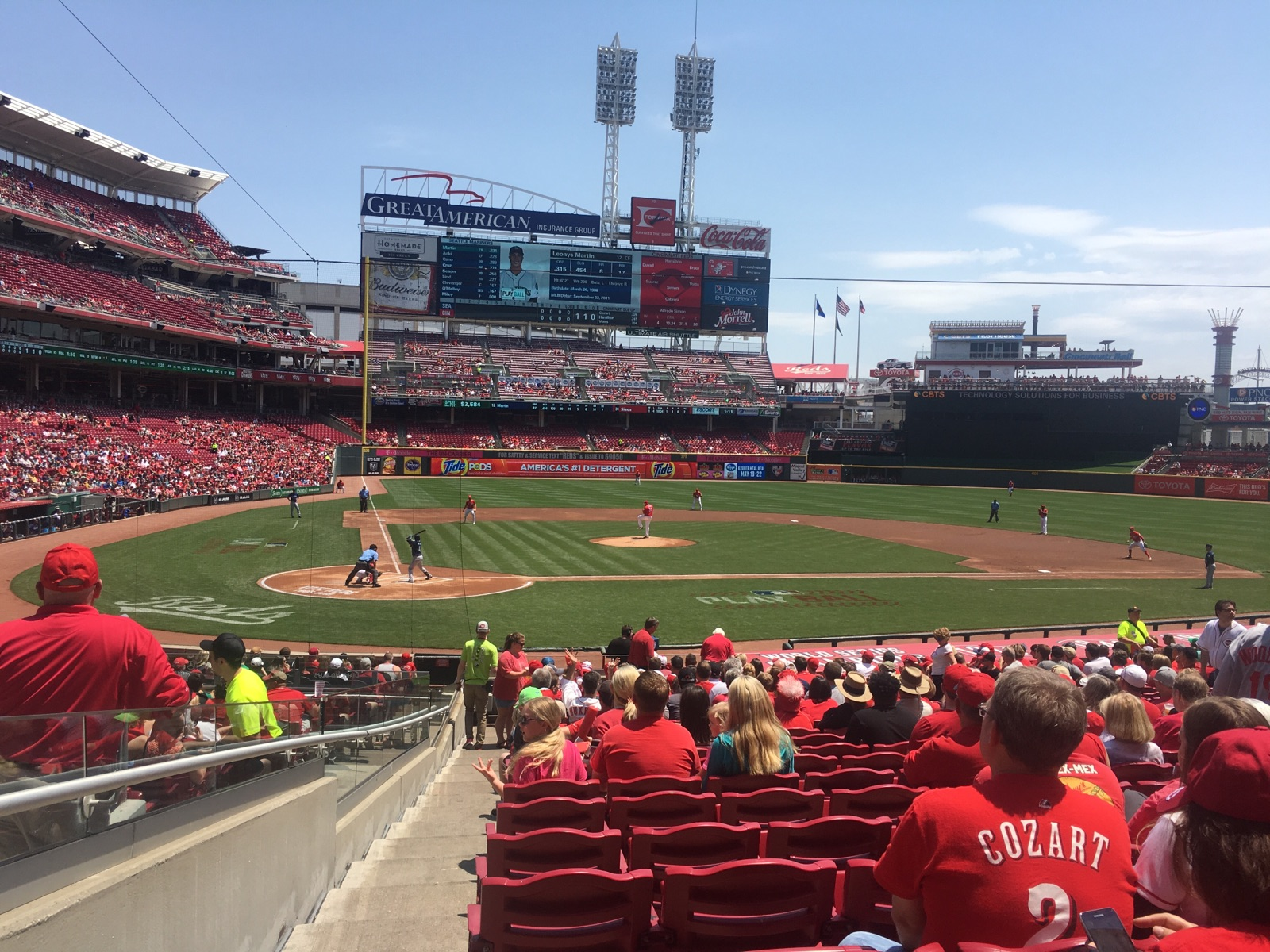 View of GABP from Section 127 Row BB